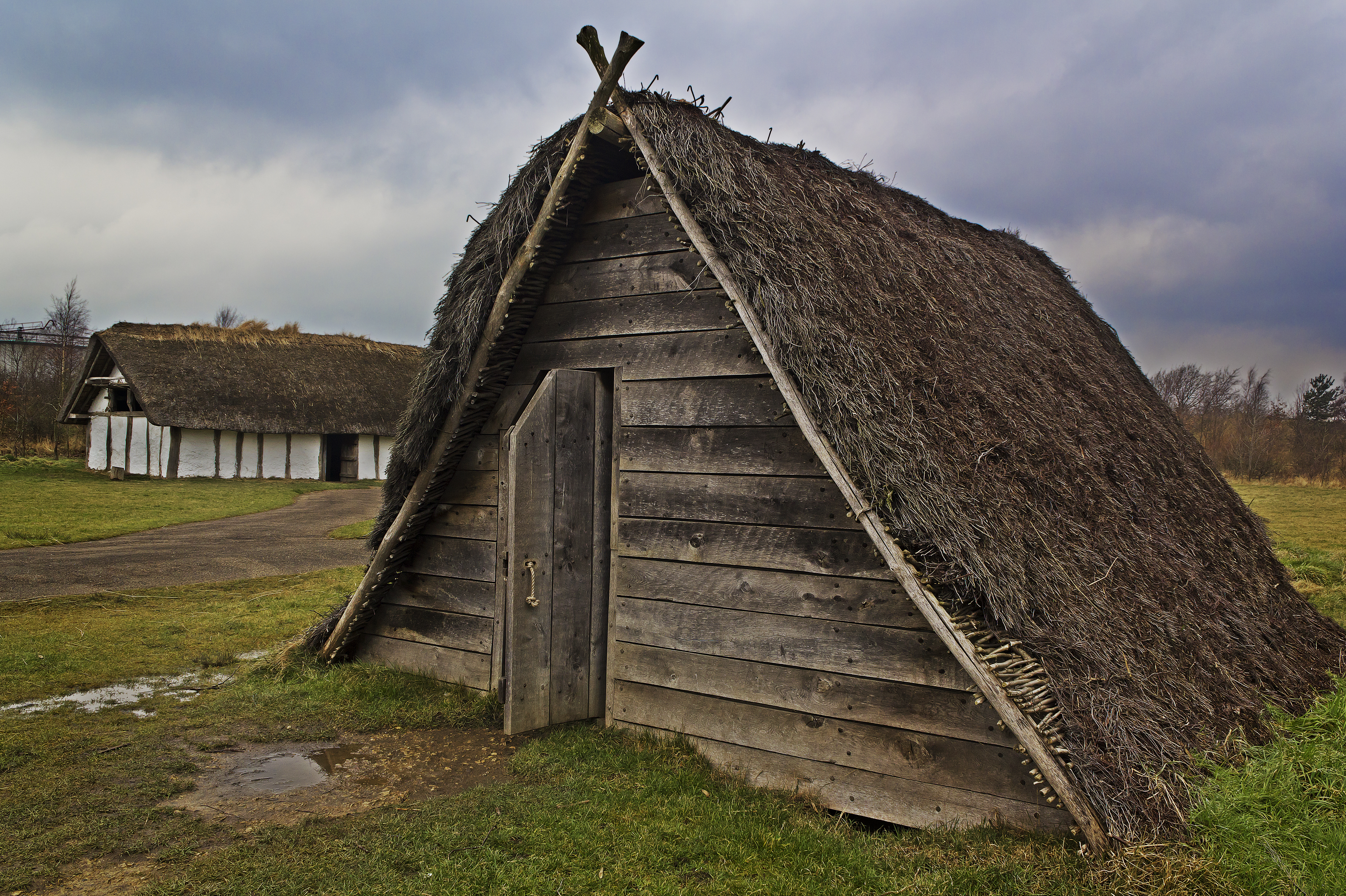 A reconstructed grubenhaus at Bede's World, Jarrow